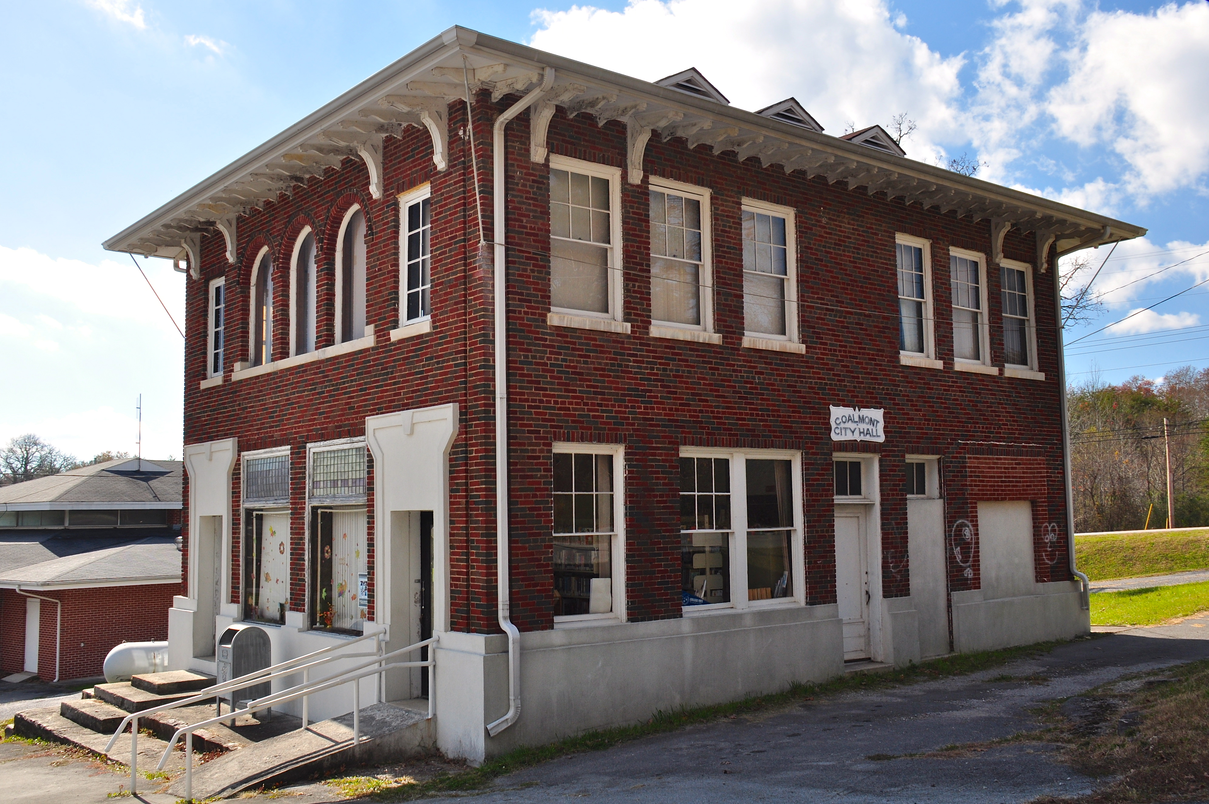 Coalmont Bank Building, Junction of State Route 56 and Heidenburg St. Coalmont. Currently serves as the city hall and public library for the town of Coalmont. Also known as Sewanee Fuel & Iron Company Building.